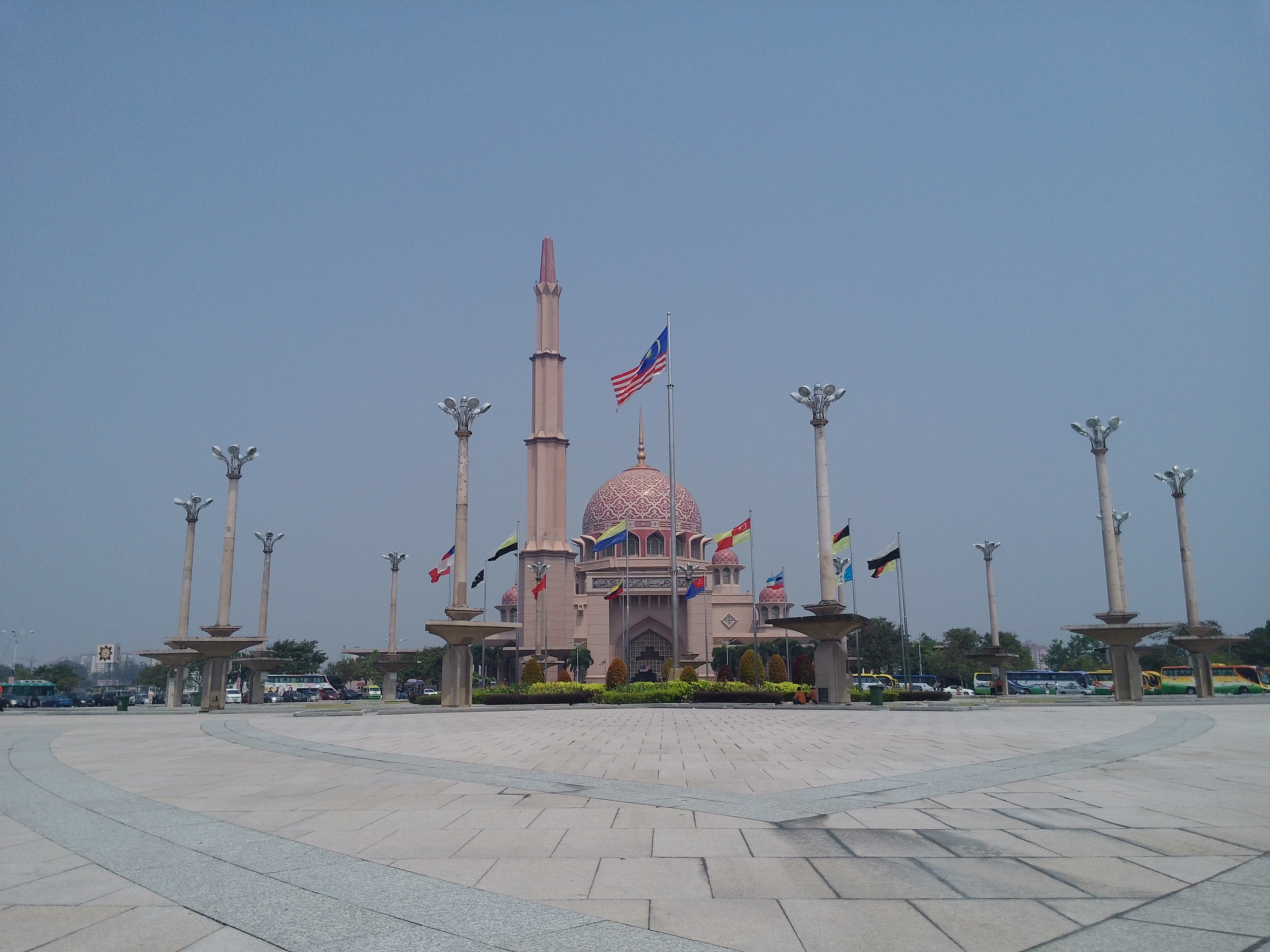 Masjid Putrajaya